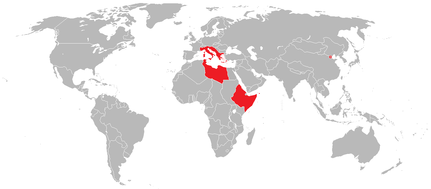 Italian Empire in his apex with the military occupation of Tunisia, Dalmatia and Greece.